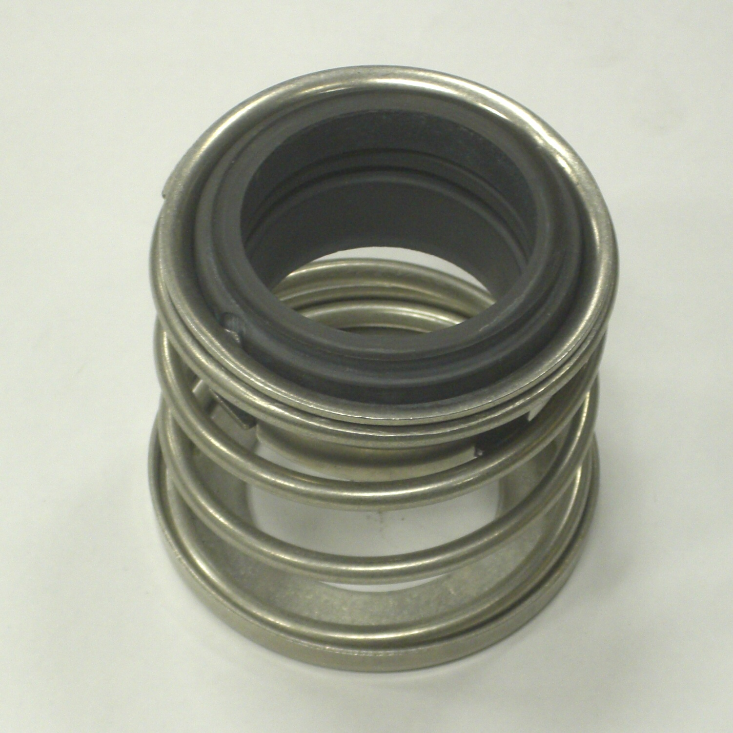 packing parts for water system (Seal_(mechanical)); (シール (工学))メカニカルシールの部品、カーボン製の固定環とばね